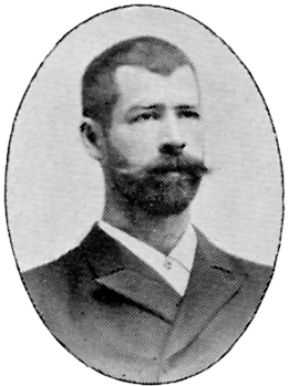 Image scanned from the book "Svenskt Porträttgalleri XX - Arkitekter, Bildhuggare, Målare m.fl. " ("Swedish Portrait Gallery XX - Architects, Sculptors, Painters, ") published 1901